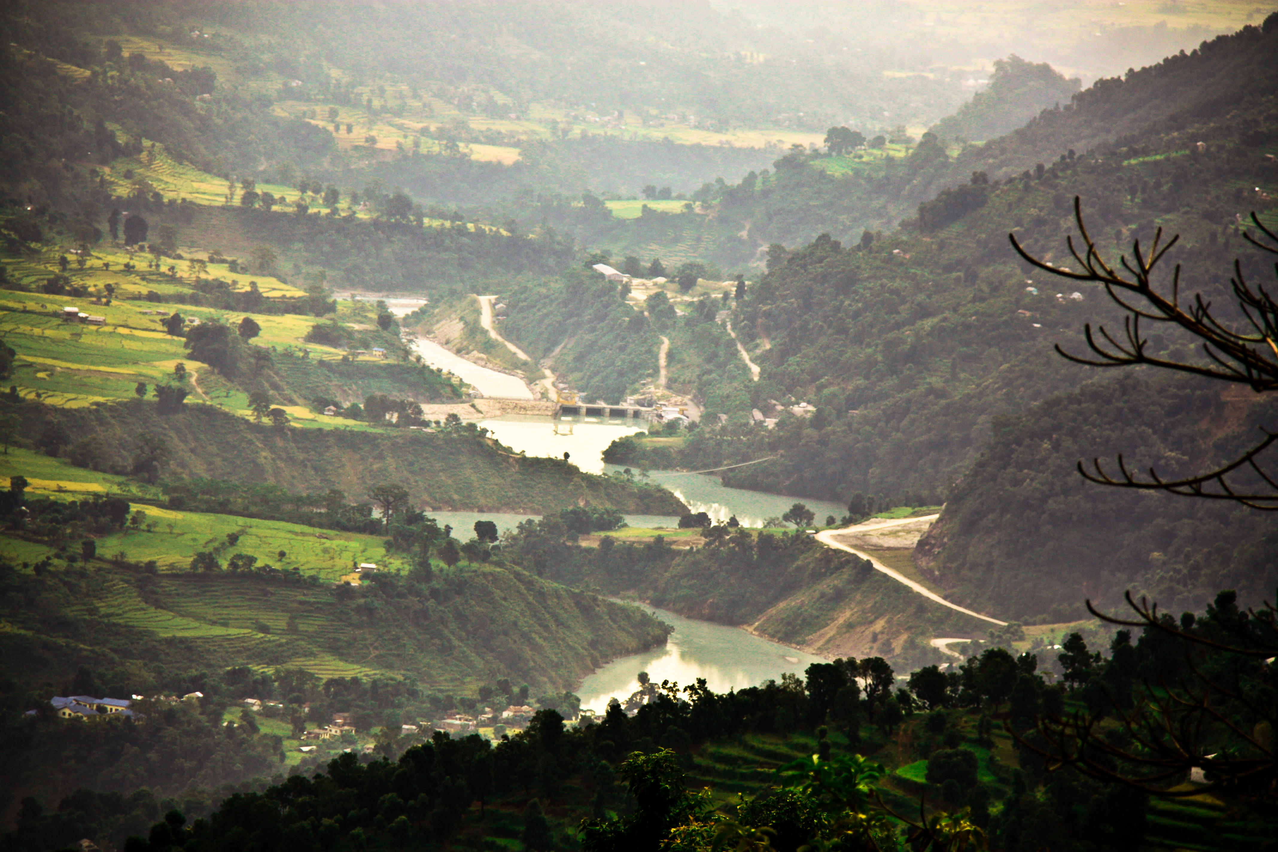 70 MegaWatt Middle Marshyangdi Hydro-power Dam (View from Gaunshahar)